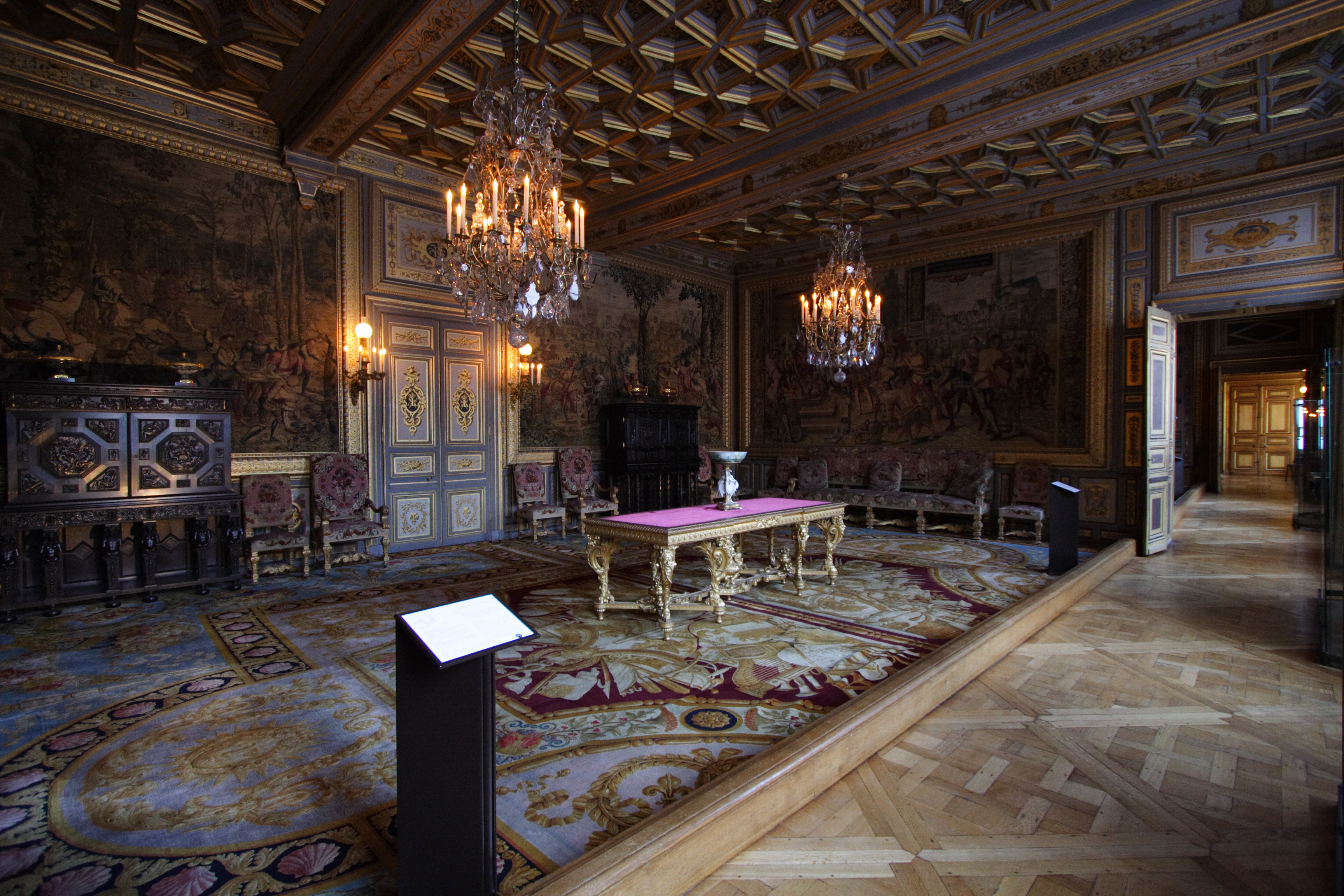 Drawing room of Francis I in the Palace of Fontainebleau